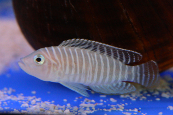 A small cichlid Neolamprologus similis at the 20th Pramong Nomklao fish show event at the Future Park Rangsit, Thailand, in July 2008. Picture taken by myself.